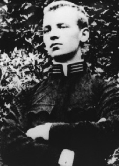 Władysław Sikorski as a high school student in Rzeszów.